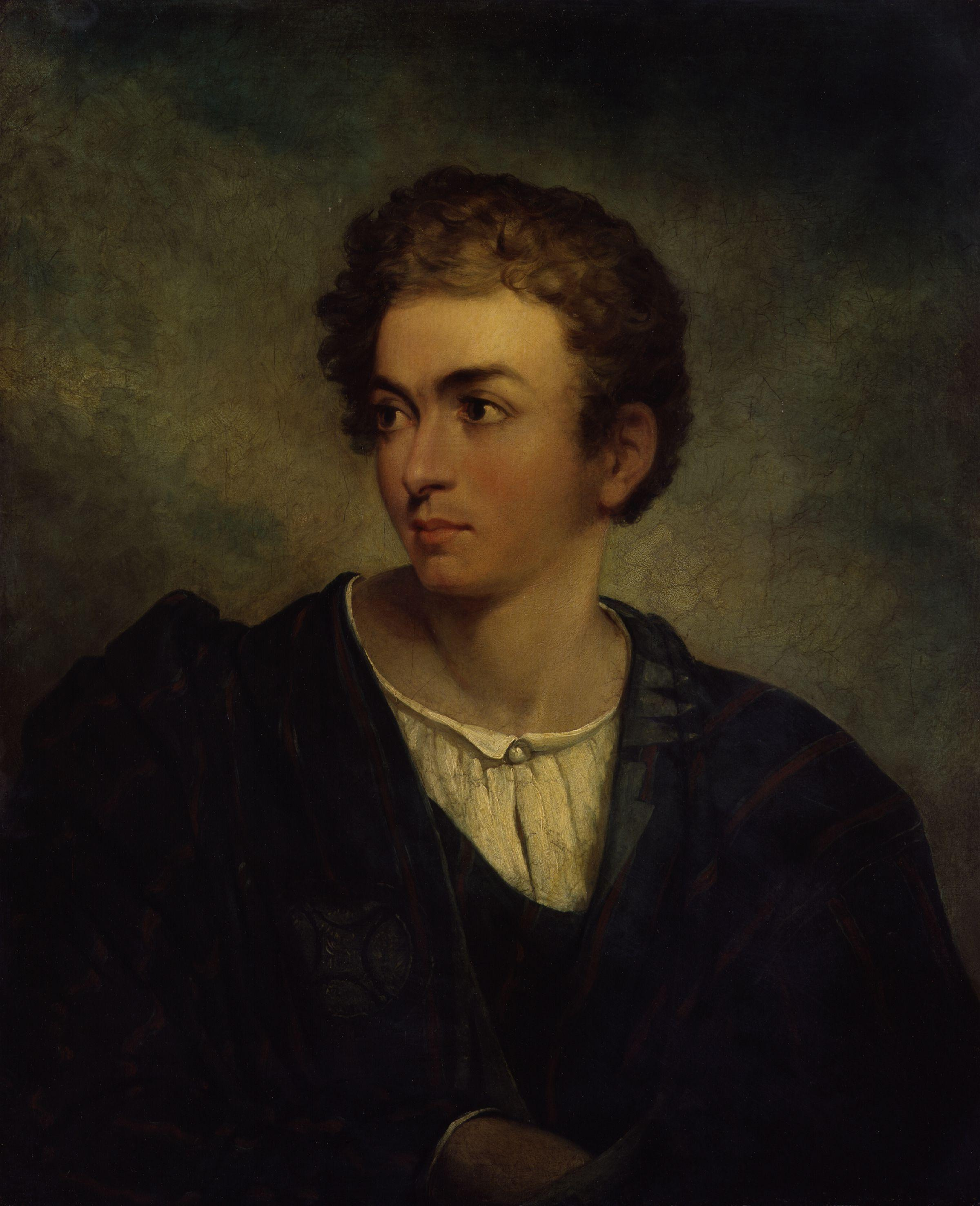 Richard Lemon Lander, by William Brockedon (died 1854), given to the National Portrait Gallery, London in 1929. All images in this batch have been confirmed as author died before 1939 according to the official death date listed by the NPG.